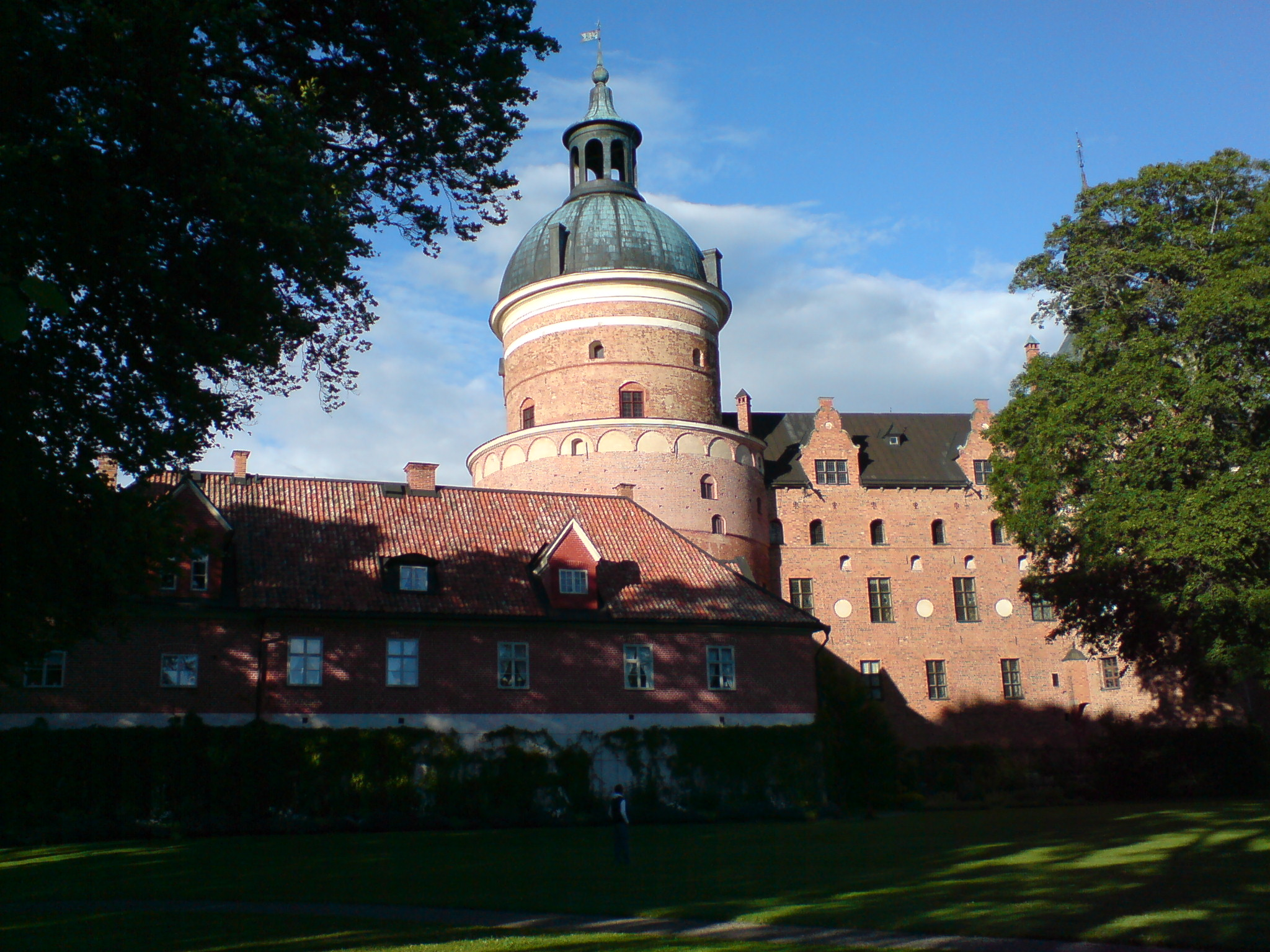 The Gripsholm Castle in Mariefred, Sweden